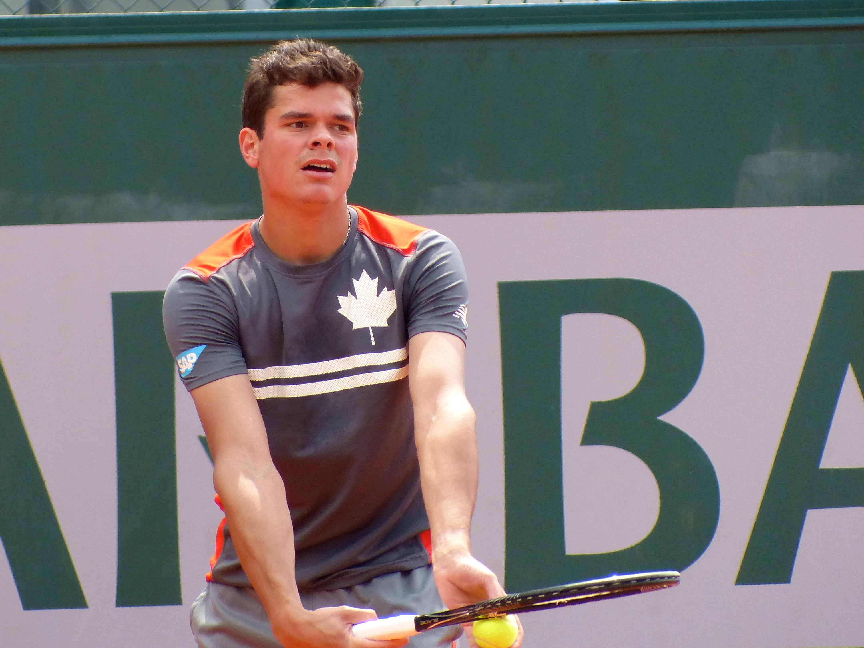 Raonic serving